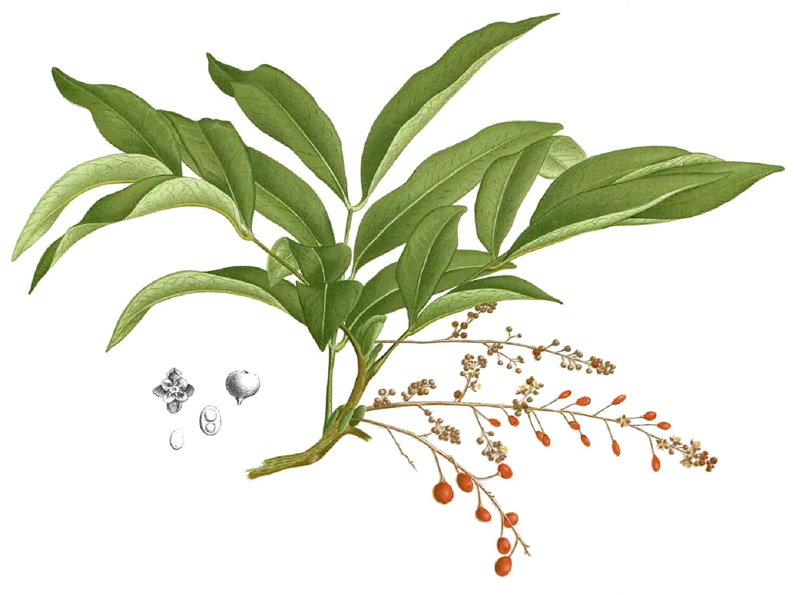 Plate from book Lepisanthes fruticosa (syn. Sapindus baccata)